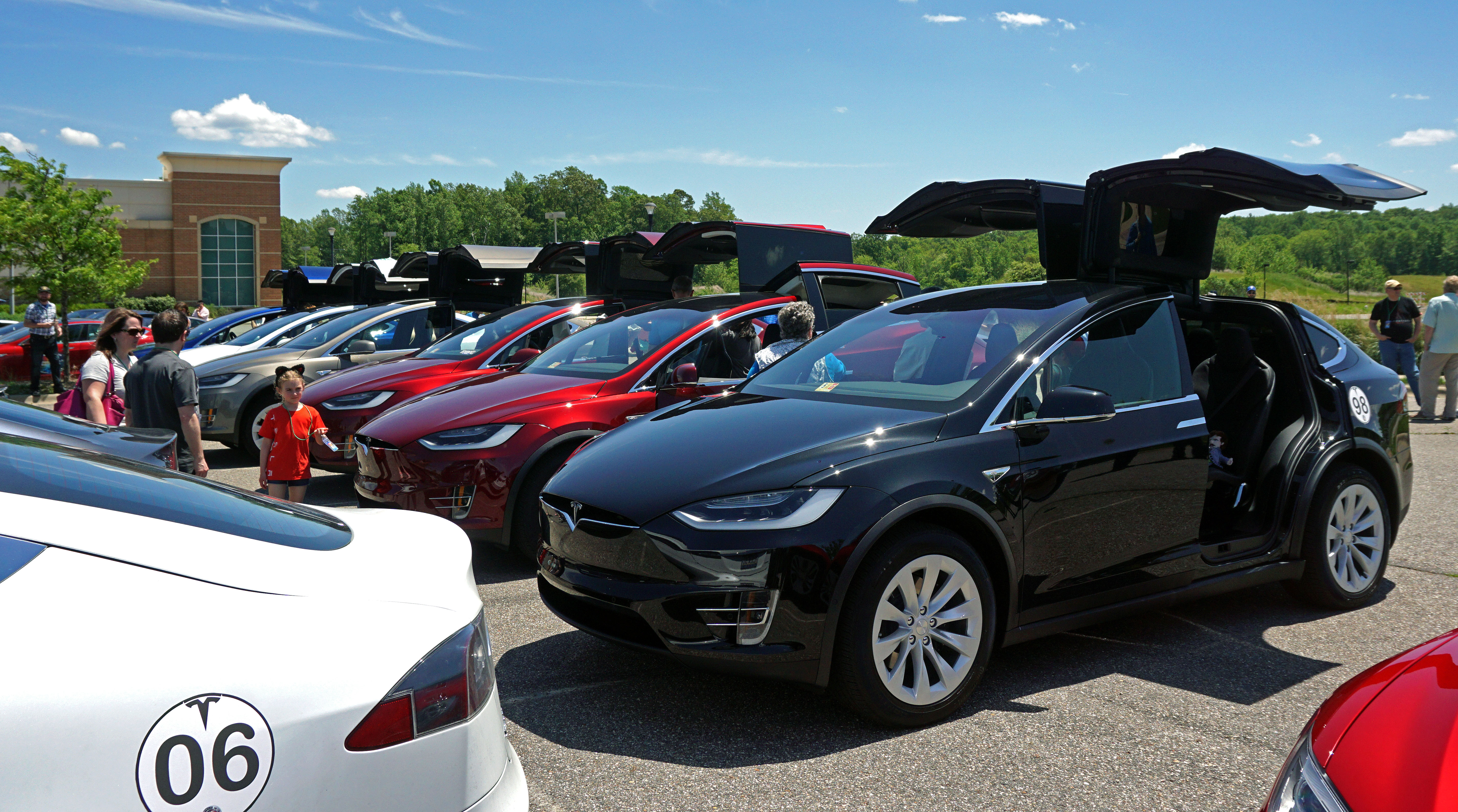 Several Tesla Model X in York, Virginia, USA